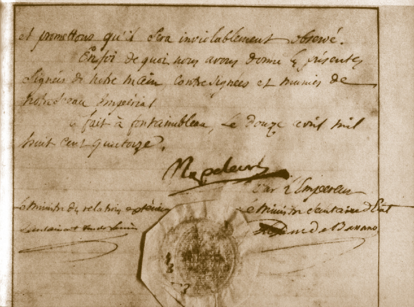 Napoléon Bonaparte's abdication document